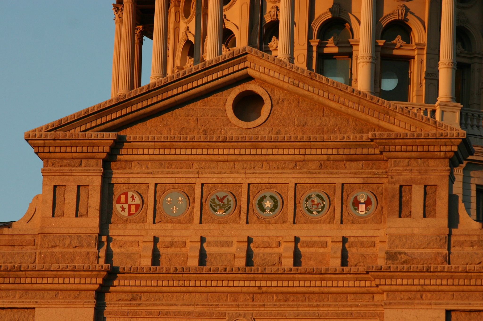 Six flags over Texas emblems displayed under the Texas State Capitol Dome. From left to right, they are the Kingdom of Spain, the Kingdom of France, the Republic of Mexico, the Republic of Texas, the Confederate States of America, and the United States of America respectively. Taken during sunset for the saturated color effect.